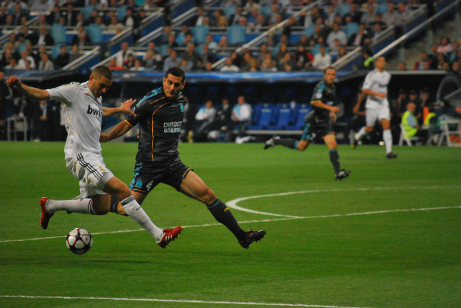 Champions League Real Madrid 3 - O.Marsella 0 30/09/09